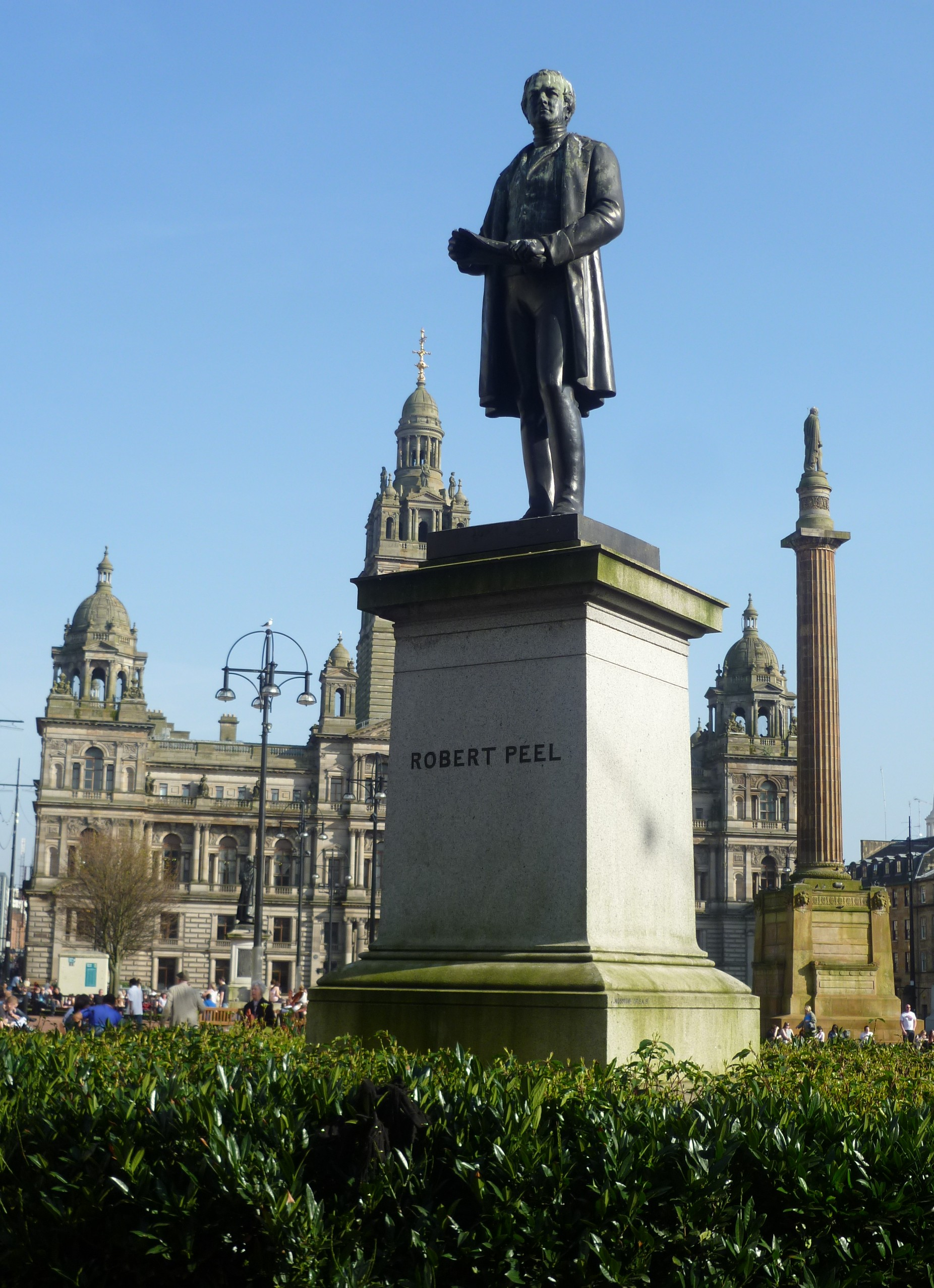 The statue stands in George Square.